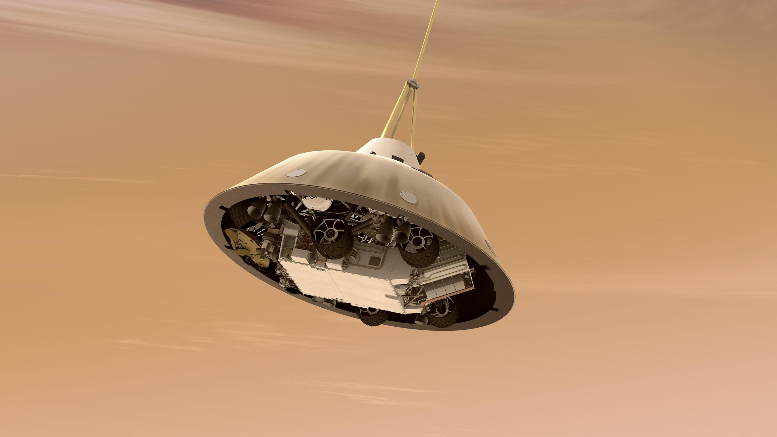 Curiosity While on Parachute, Artist's Concept This is an artist's concept of NASA's Curiosity rover tucked inside the Mars Science Laboratory spacecraft's backshell while the spacecraft is descending on a parachute toward Mars. The parachute is attached to the top of the backshell. In the scene depicted here, the spacecraft's heat shield has already been jettisoned.